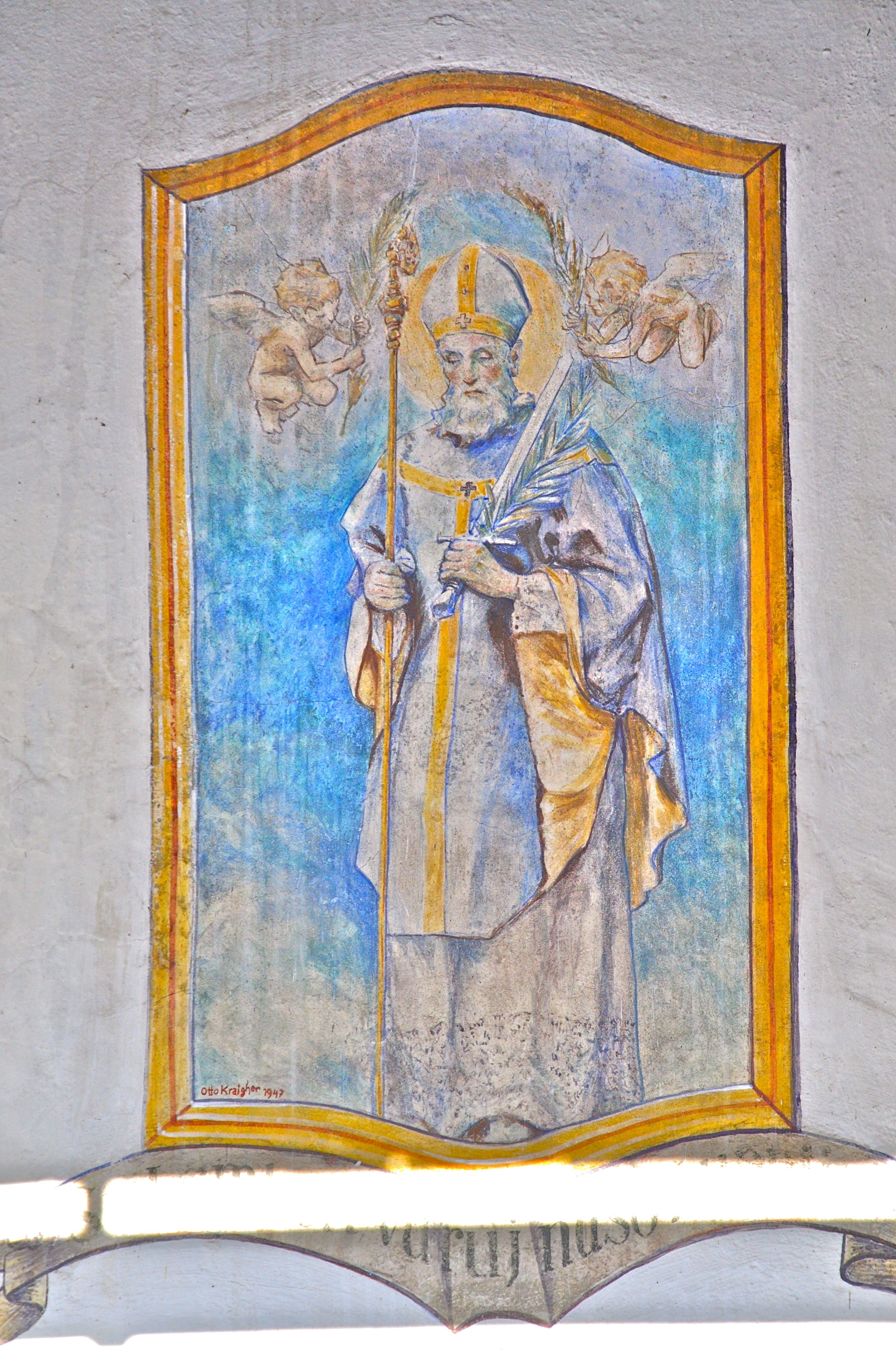 Wall painting of “Saint Lambertus” on the south wall of the parish church "Holy Lambertus" in Suetschach, municipality Feistritz im Rosental, district Klagenfurt Land, Carinthia, Austria